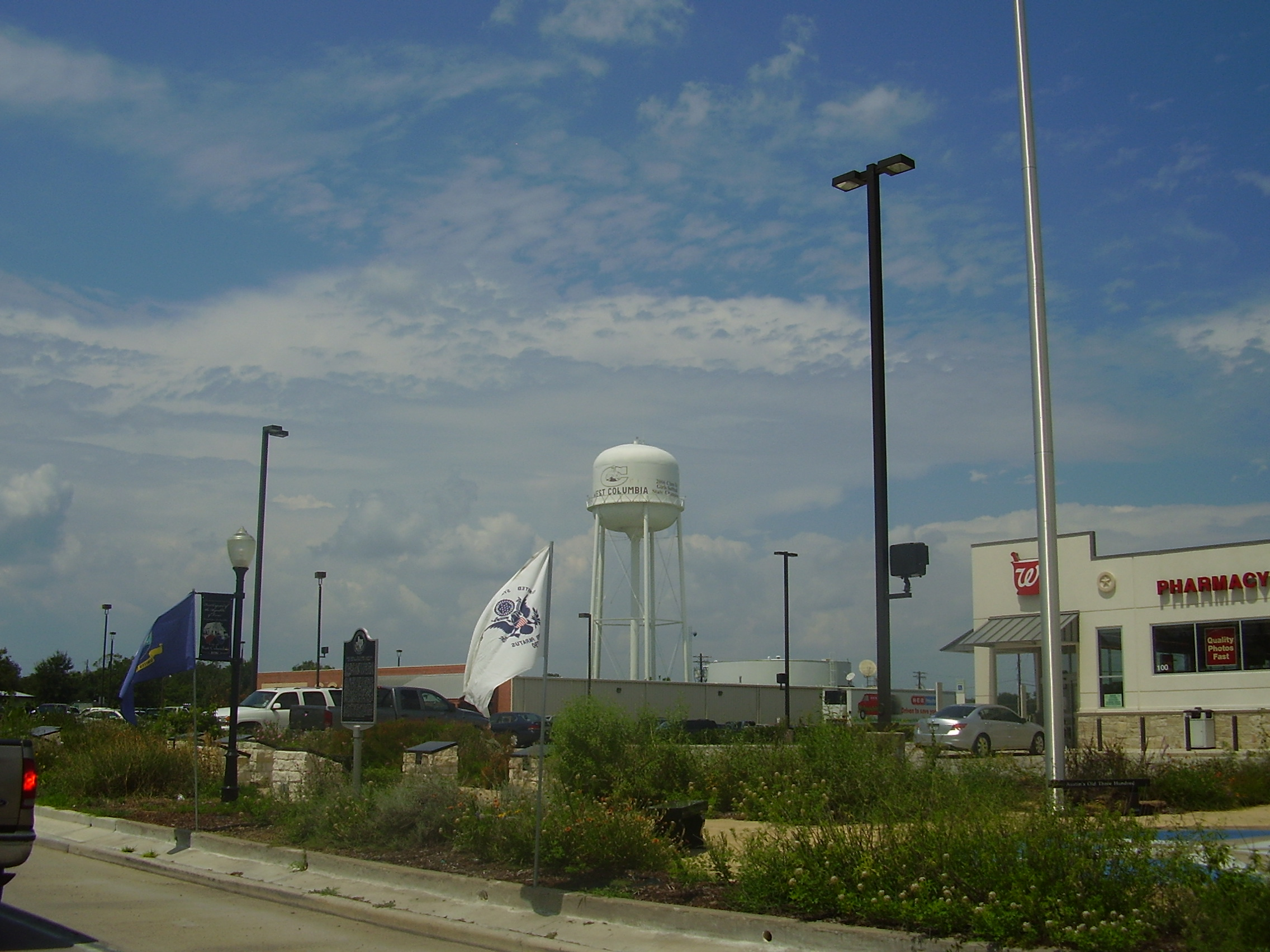 West Columbia, Texas